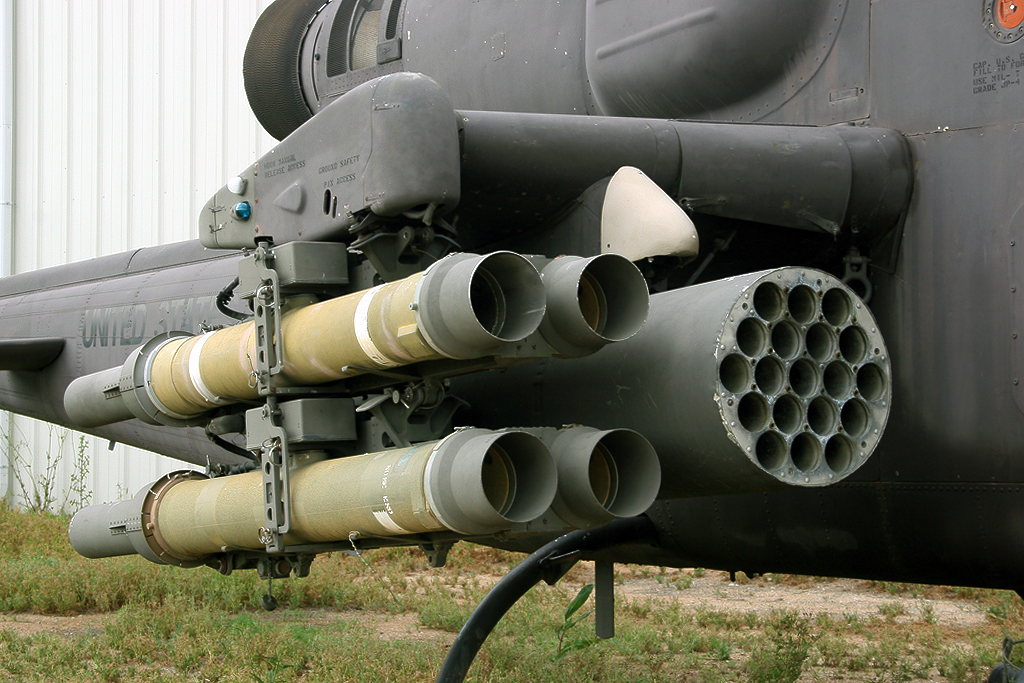 March Field Museum, Riverside (California)